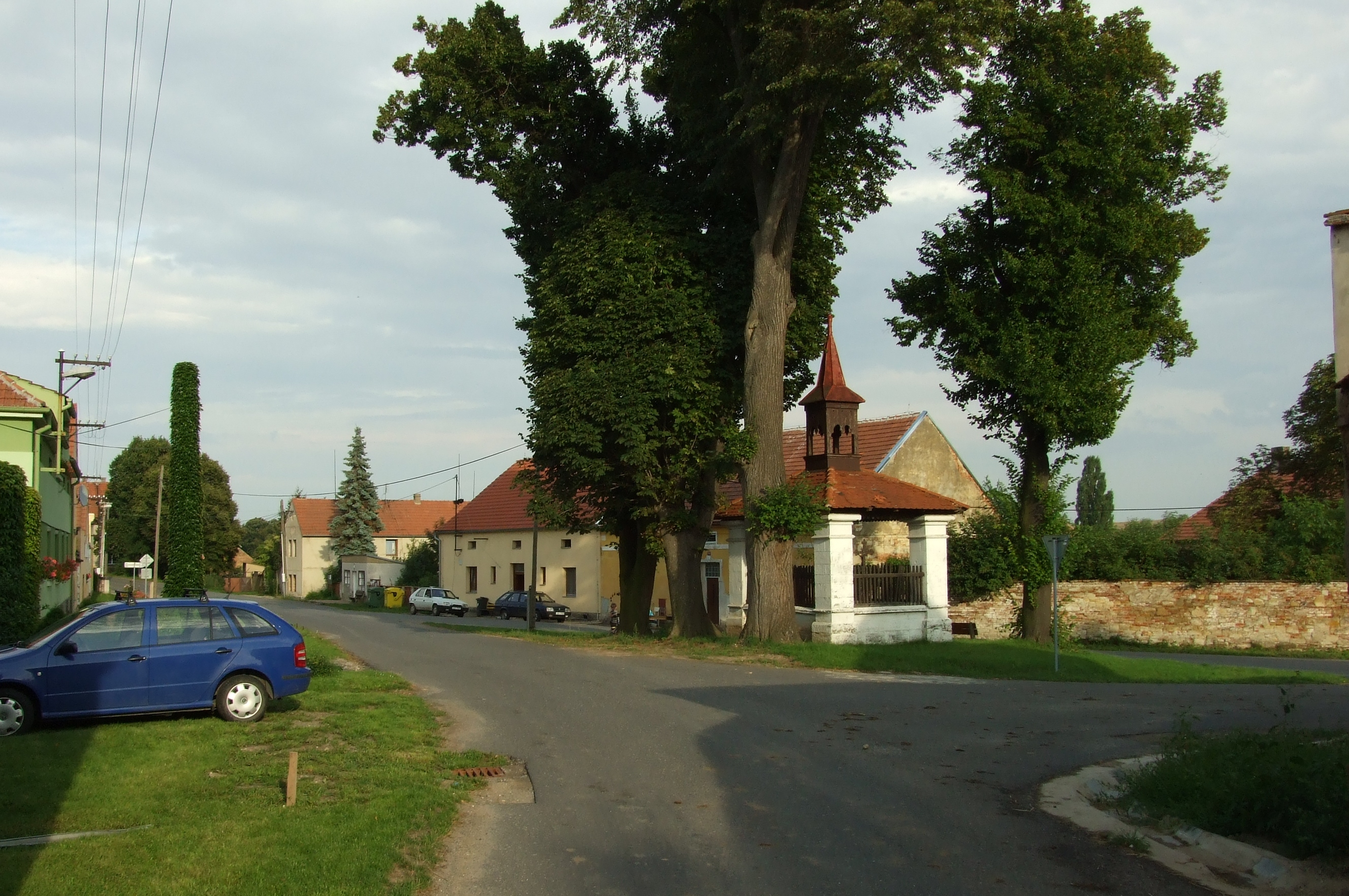 Common in Kokovice village - part of the town of Klobuky. Central Bohemian Region, CZ